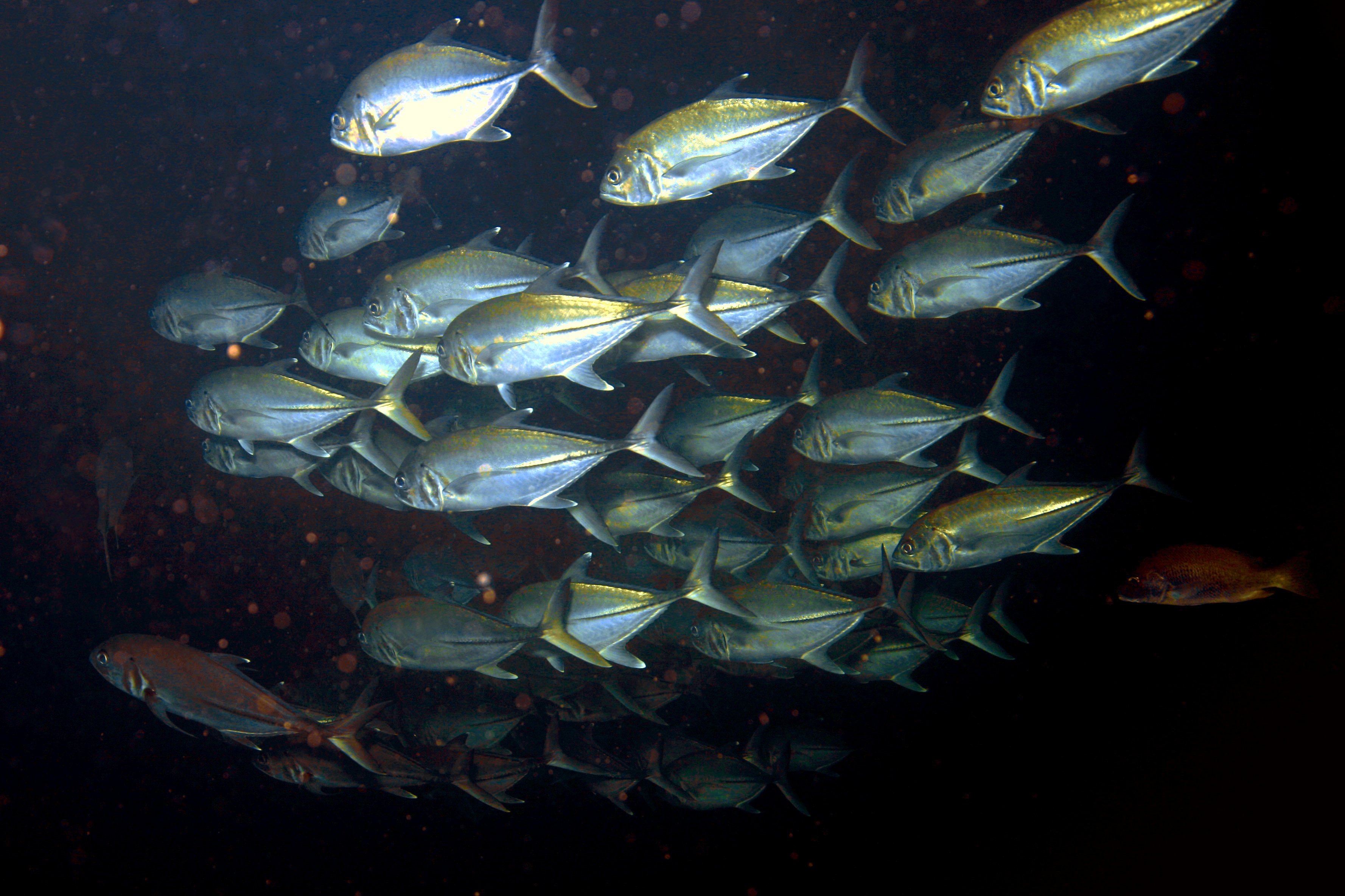 A closer look at a school of Pacific Crevalle Jacks (Caranx caninus). Taken at Punta Pargo (Snapper Point), Santa Catalina, Panama. Re-identified as Caranx sexfasciatus Quoy and Gaimard, 1825 by Ross Robertson (